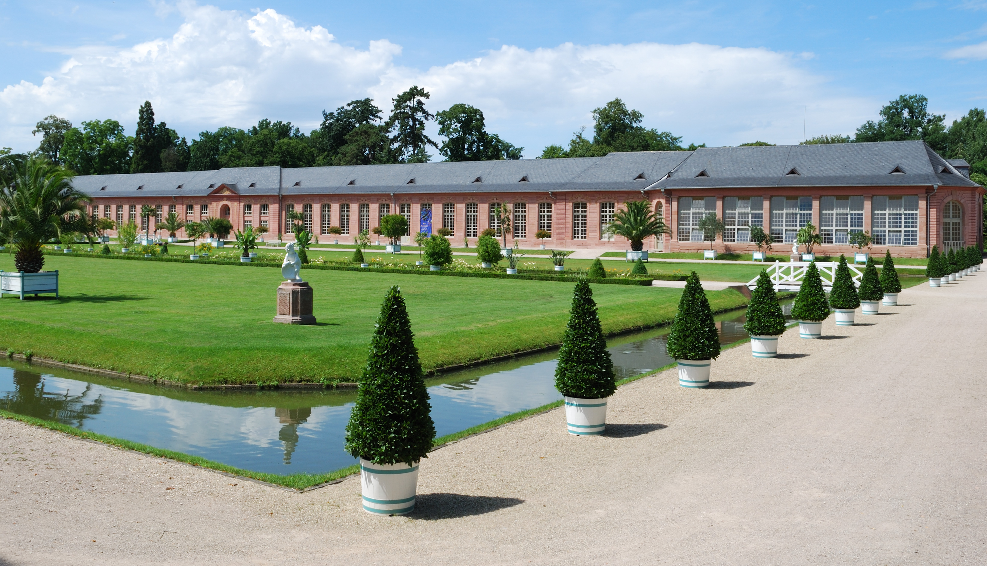 Castle garden of Schwetzingen, Orangery. Baden-Württemberg, Germany.